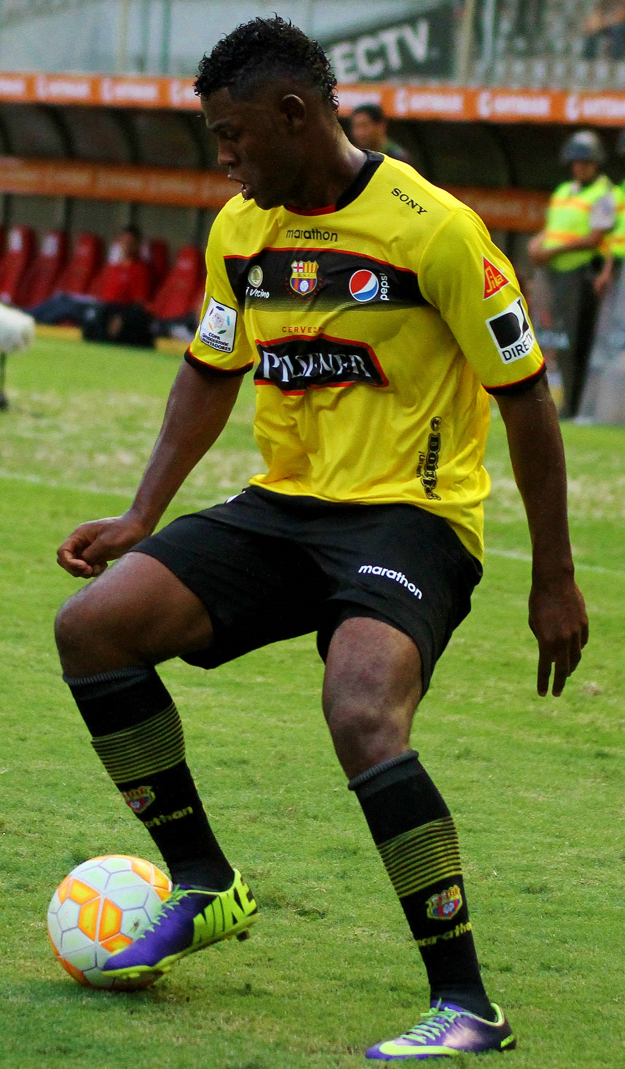 Marlon de Jesús. Guayaquil, Martes 3 de marzo del 2015 (ANDES).-Barcelona enfrenta a Libertad de Paraguay en su primer partido por Copa LibertadoresFoto:César Muñoz/ANDES